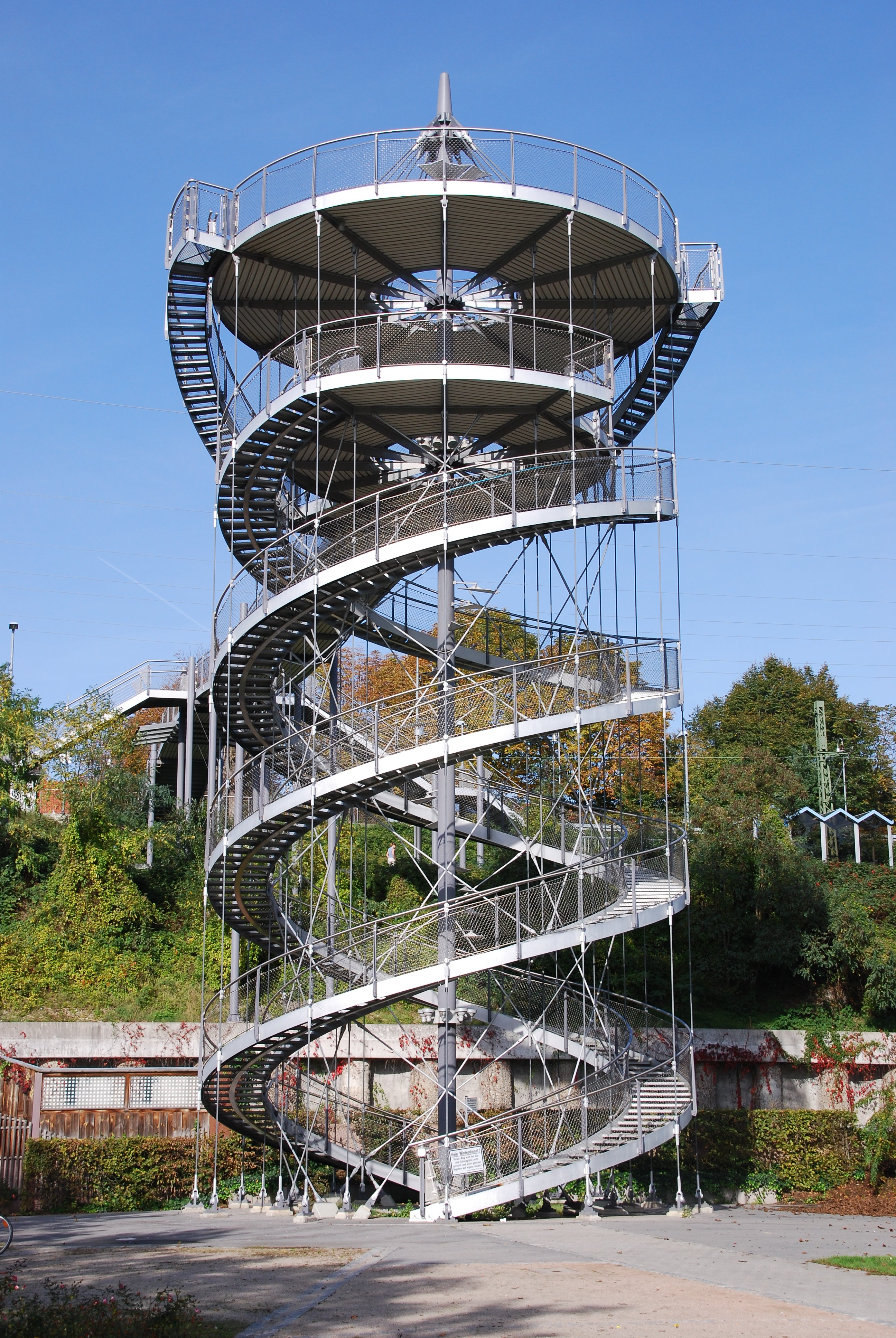 Weil am Rhein:Stair and observation tower (Schlaich Tower)